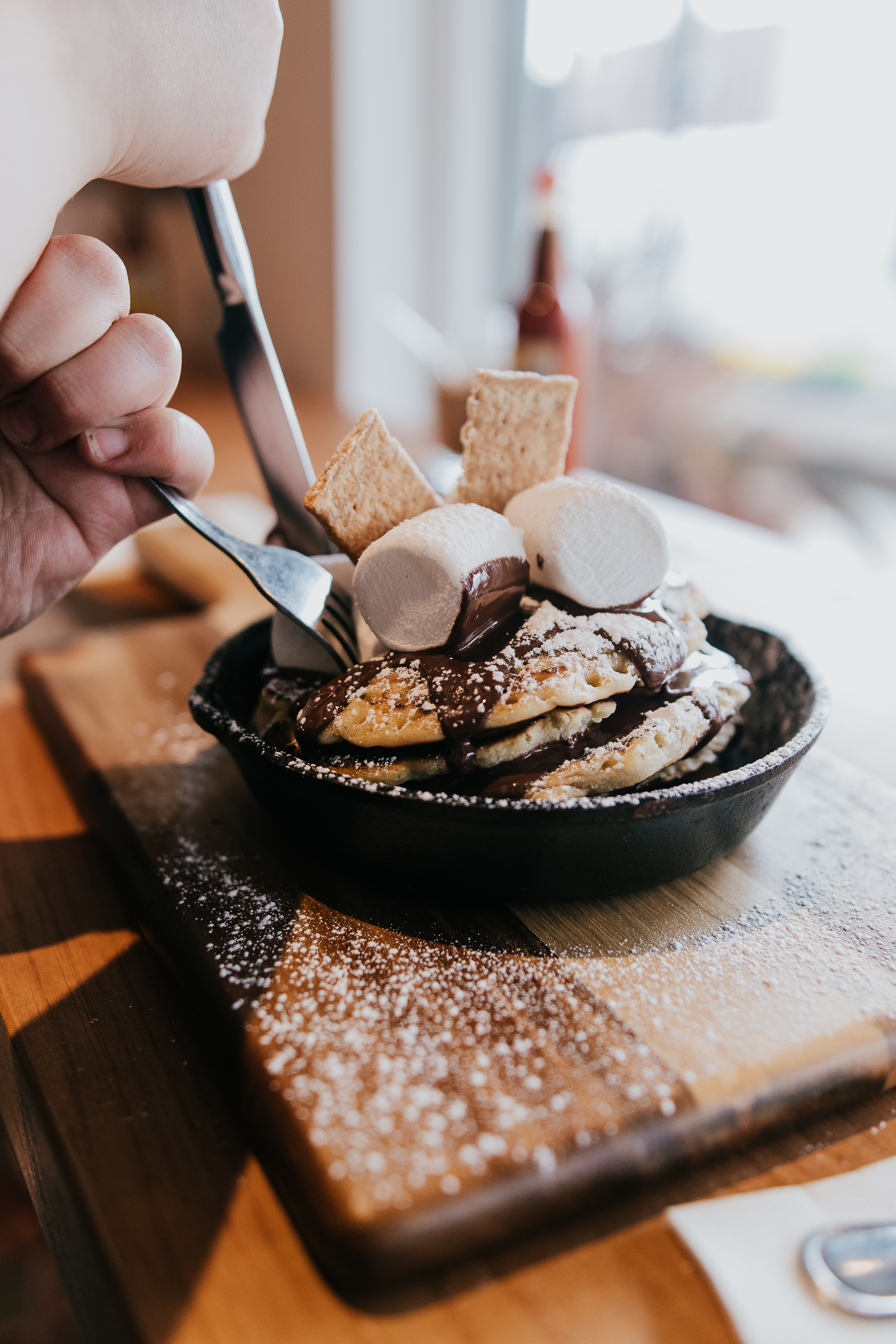 Breakfast pancake skillet with Hazlenut chocolate